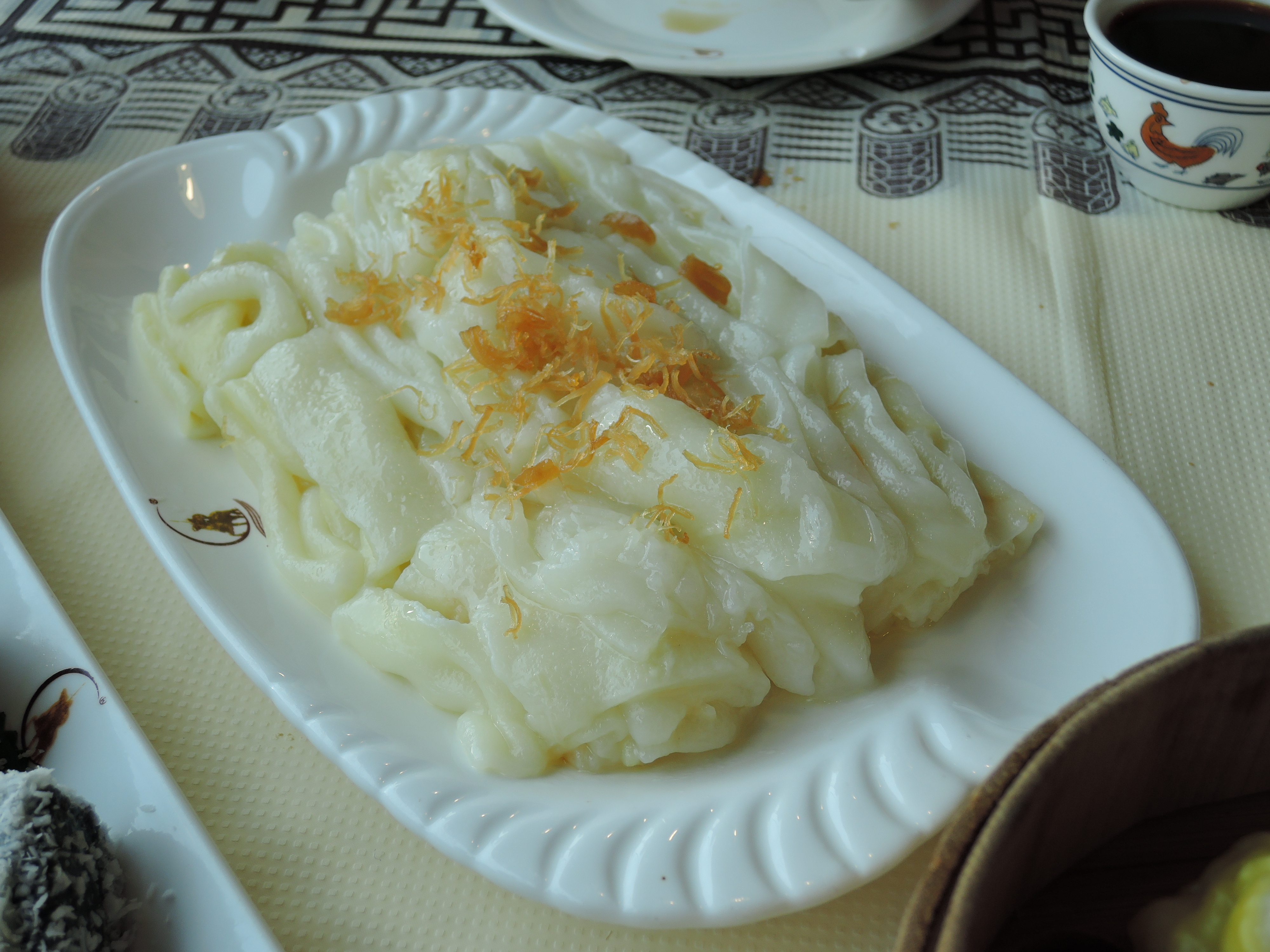 The cheung chau's famous food is egg rice roll in Cantonese Restaurant